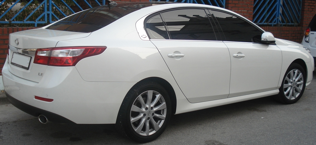 Renault Samsung New SM5